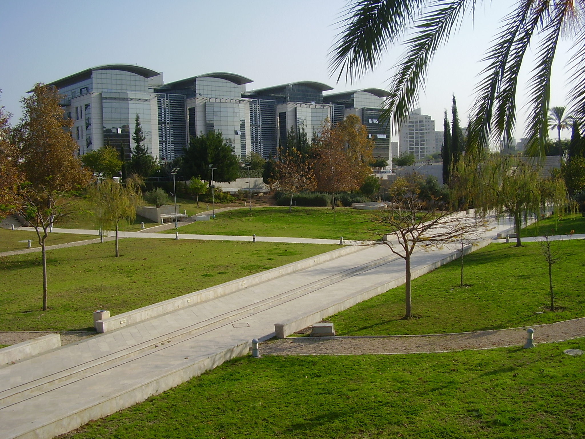 Unity park in Bar-Ilan University